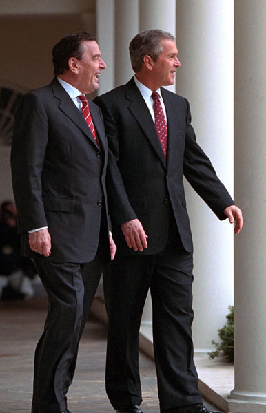 President George W. Bush walks with German Chancellor Gerhard Schroeder at the White House on Thursday March 29. 2001.